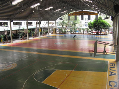 basketball court